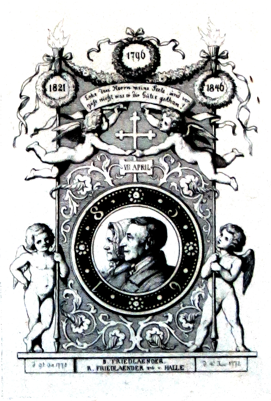 Benoni and Rebekka Friedlaender, geb. van Halle, at the 60th anniversary of their marriage